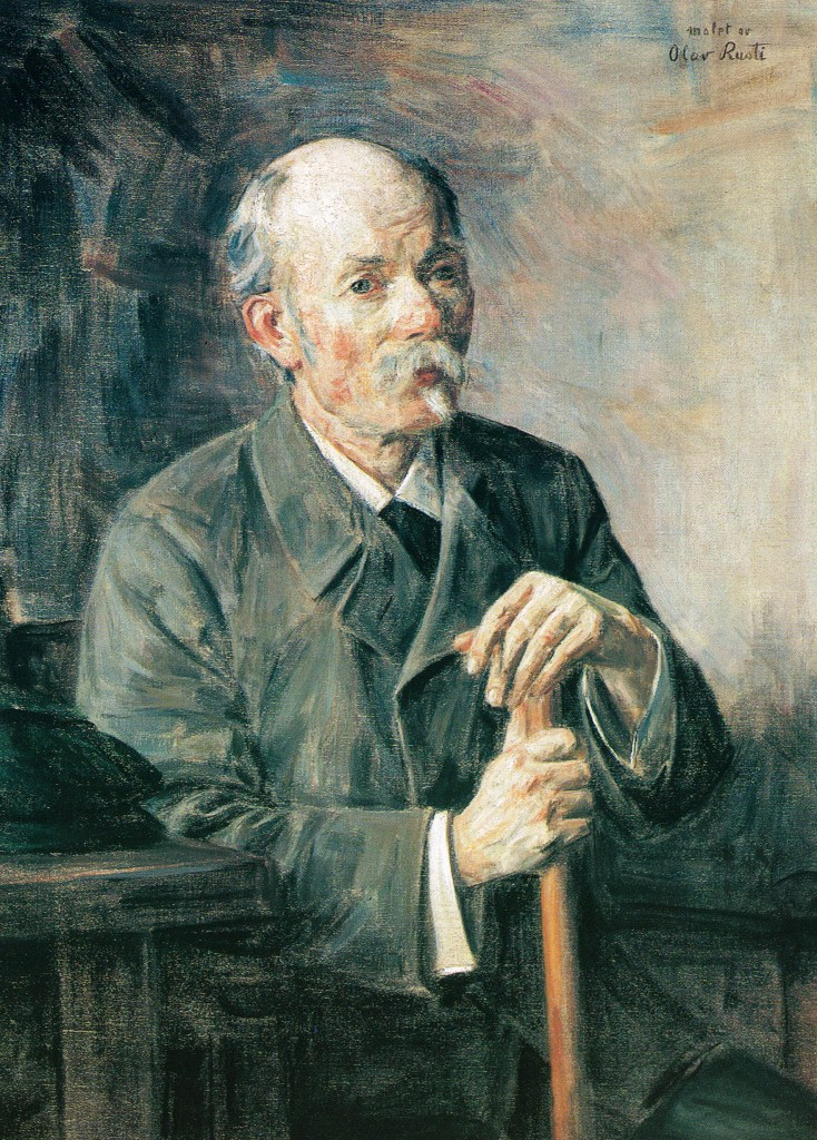 Portrait of norwegian author Arne Garborg by norwegian painter Olav Rusti (1850-1920); made 1912-14; owned by Aschehoug publishing house